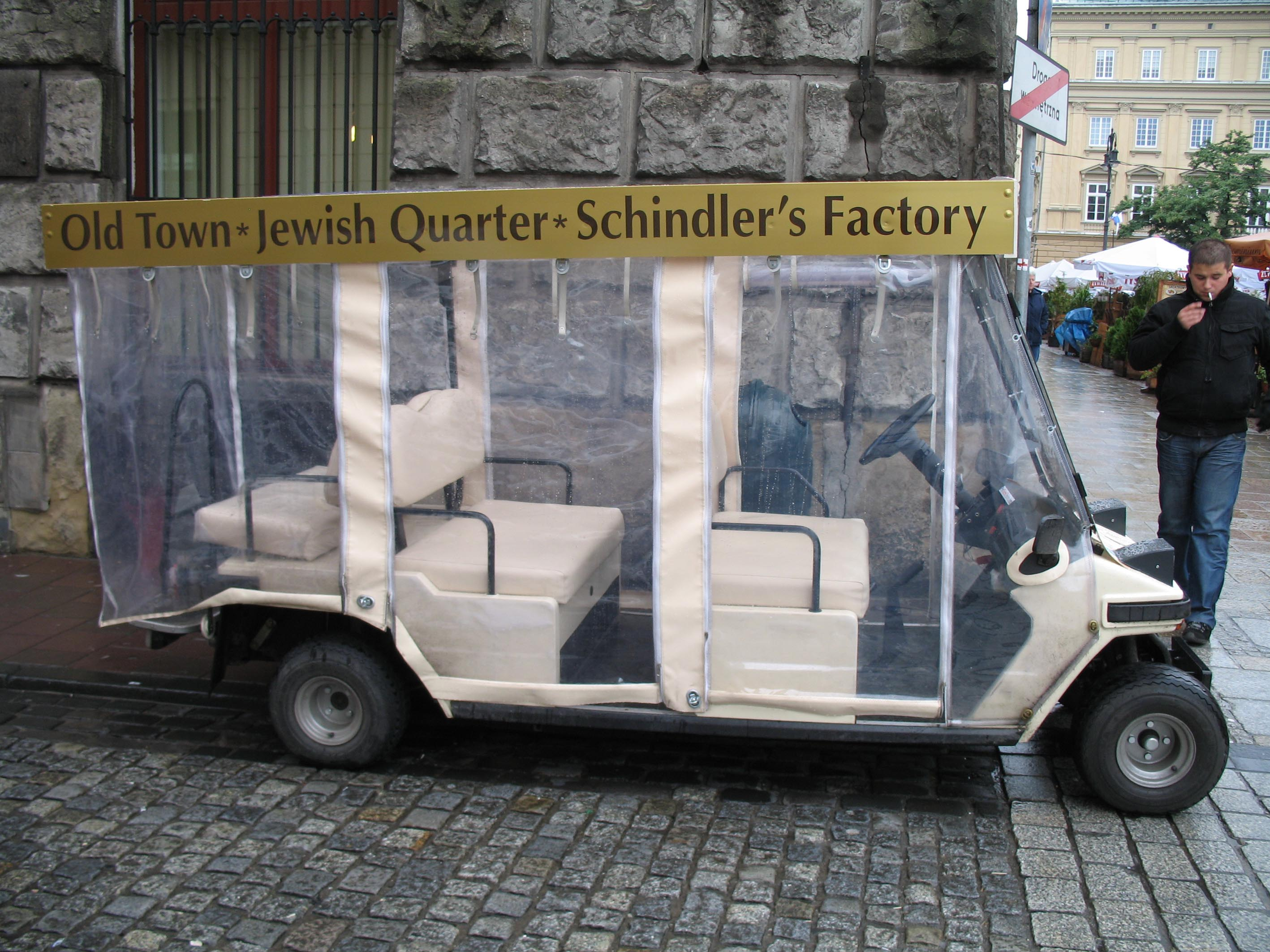 Turistic Melex (side) in Kraków, Poland.